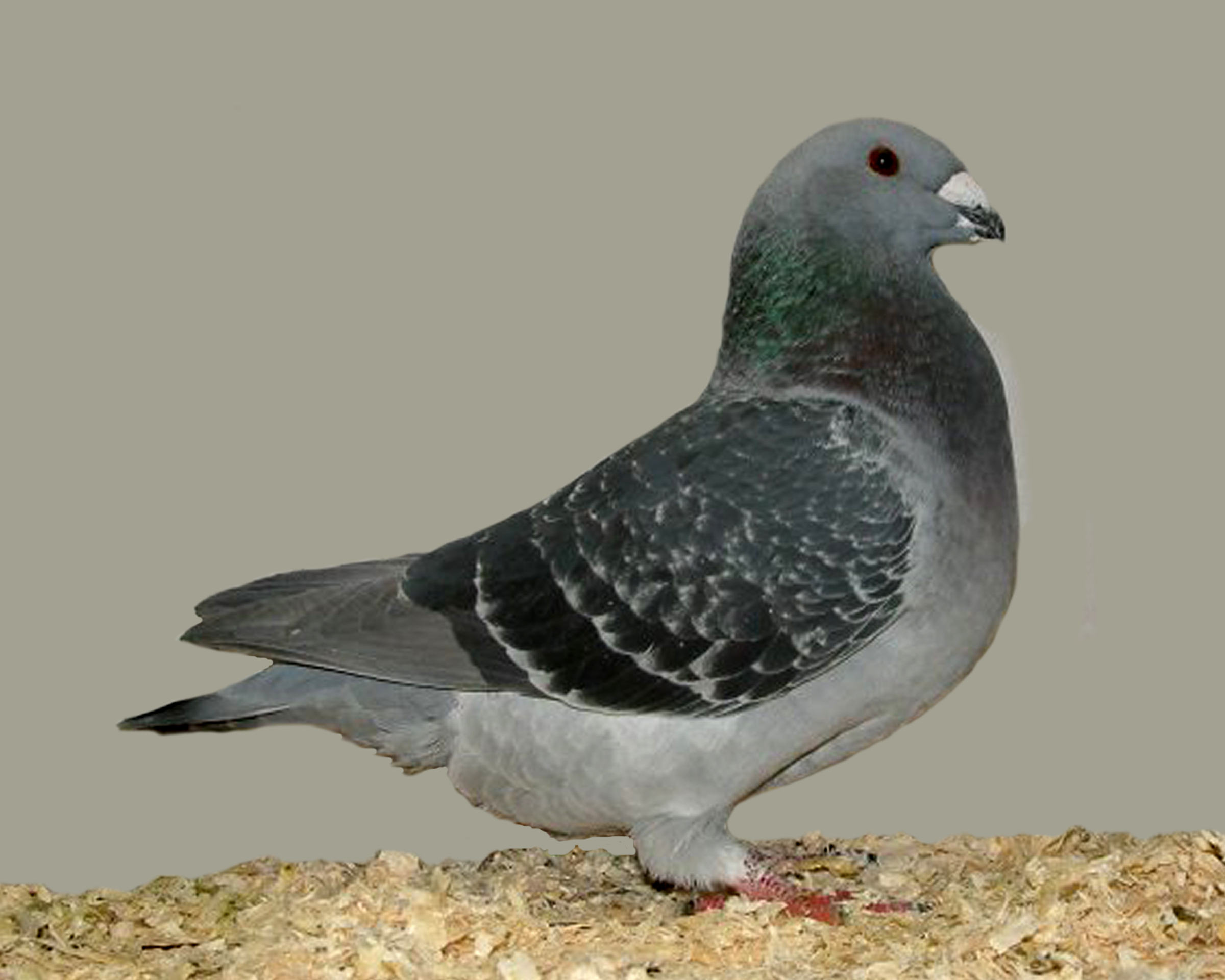 American Show Racer (Blue Chequer)